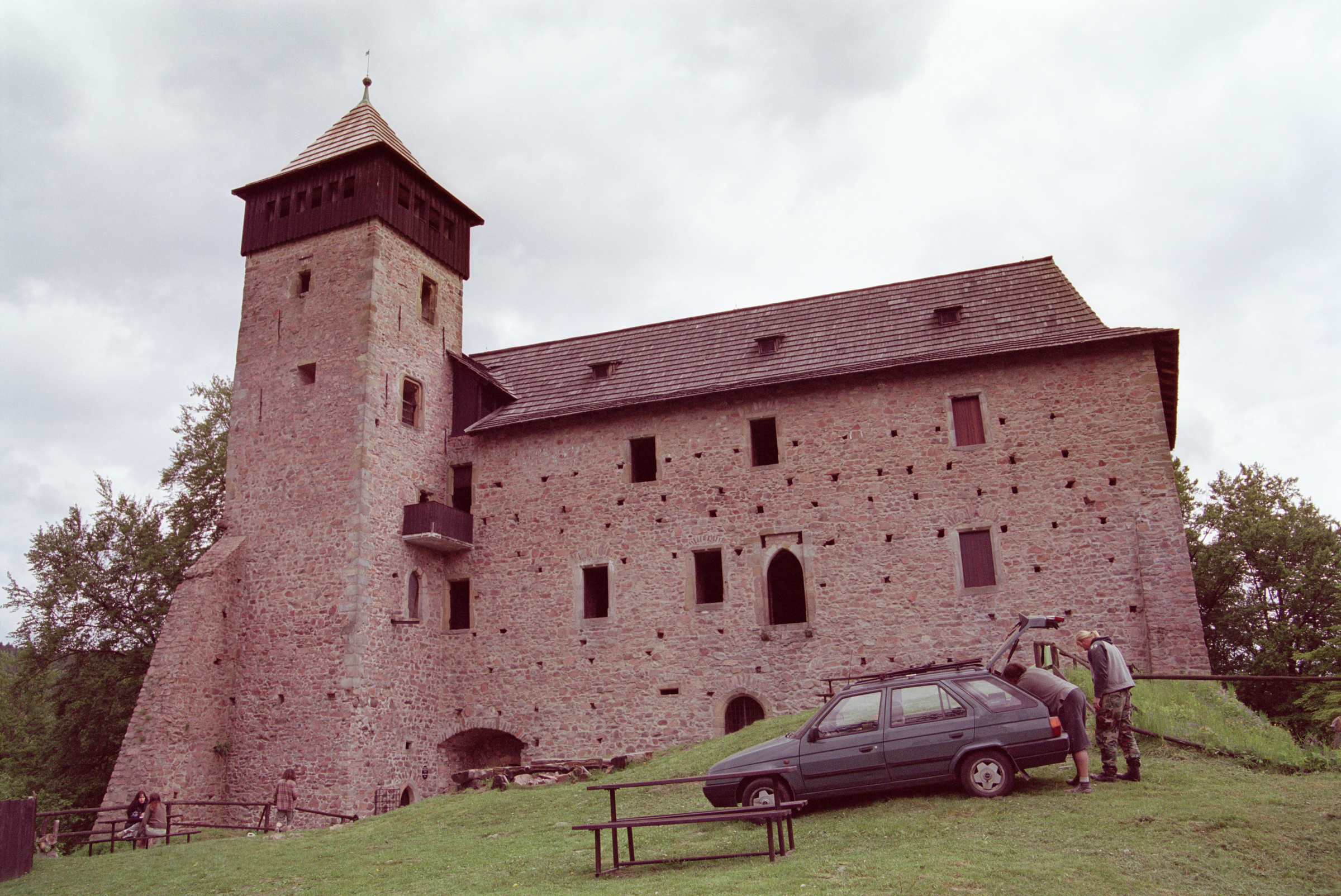 hrad (Burg, castle) Litice nad Orlicí in Pardubický kraj, building of the castle